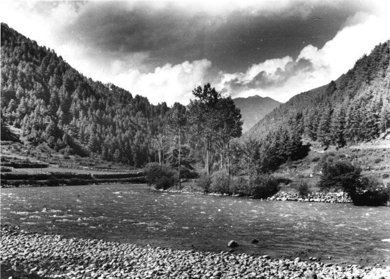 Rinchigang, unteres Tschumbital [Chumbital]